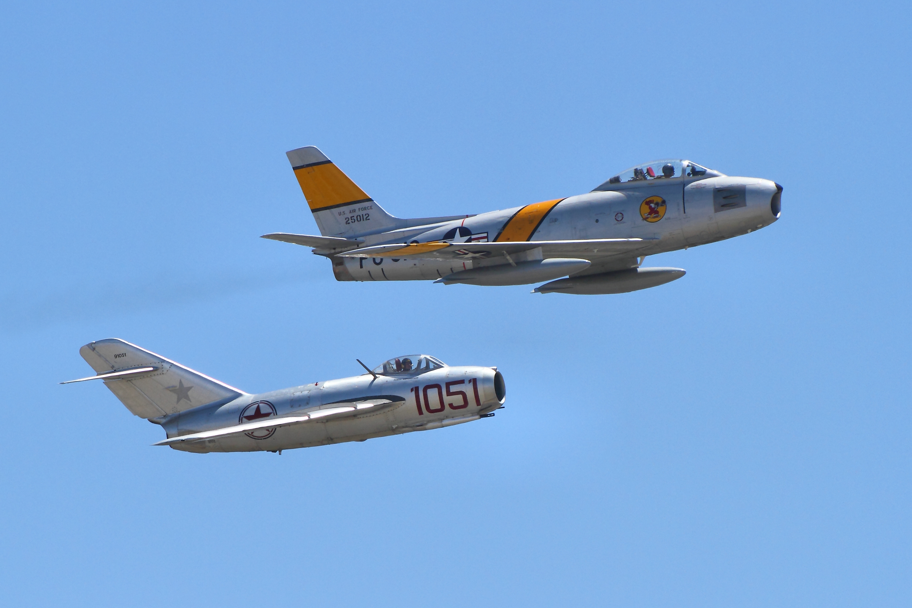 Mig 15 & F86F - Chino Airshow 2014